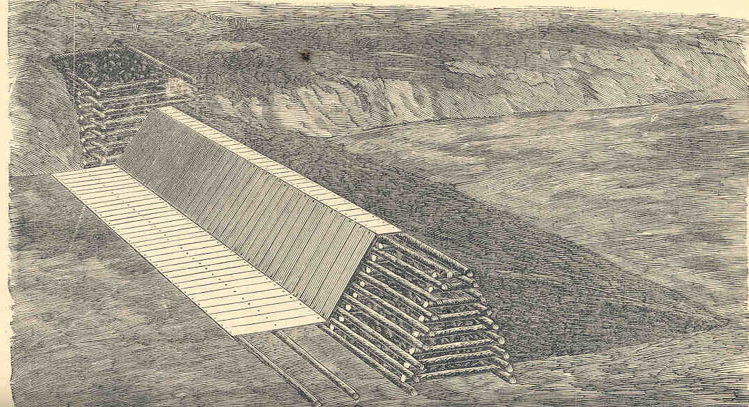 Crib Dam with Plank Covering Subject: Dams--Design and construction Tag: Dams